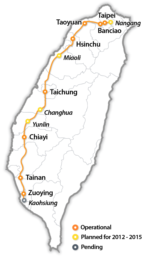 Taiwan High Speed Rail Route Map (English)